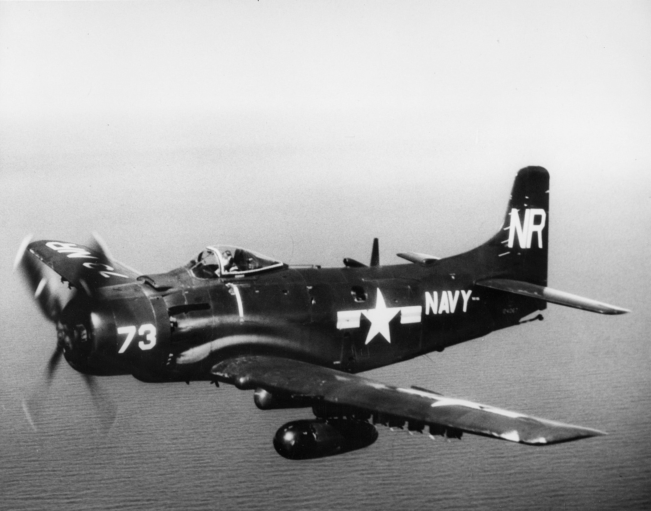 A U.S. Navy Douglas AD-4Q Skyraider (BuNo 124067) from composite squadron VC-35 Night Hecklers from the aircraft carrier USS Essex (CVA-9) off Korea. VC-35 operated detachments from the Essex for two Korean War deployments in 1951 and 1952.